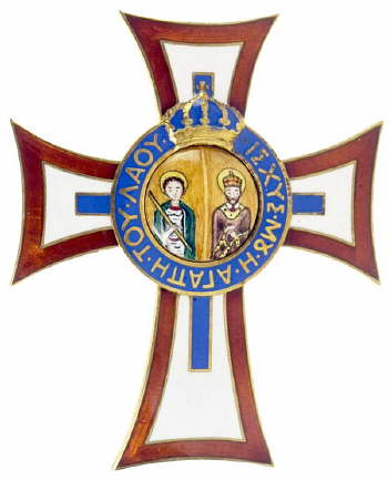 Cross of the Greek RRoyal House Order of SS. George and Constantine